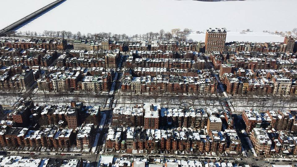 Brownstones in the Back Bay neighborhood of Boston as seen from the Prudential Skywalk Observatory.